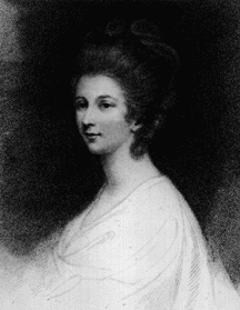 Charlotte Ramsay Lennox (1730-1804), English writer.